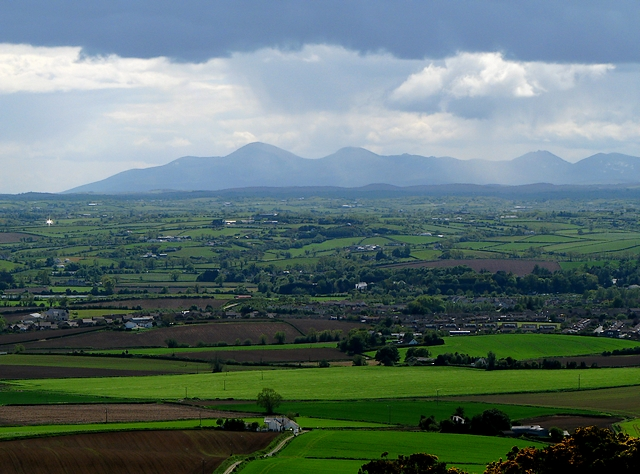 A view from Scrabo. Scrabo Tower 781345, built on a hill outside Newtownards, is an excellent viewpoint for large sections of northern County Down. This is the view across fields south of Newtownards, with part of the town of Comber visible in the middle of picture. Beyond Comber is more farmland with the Mourne Mountains, about 40 miles away, dominating the background. See also 6524048 for other views from Scrabo.